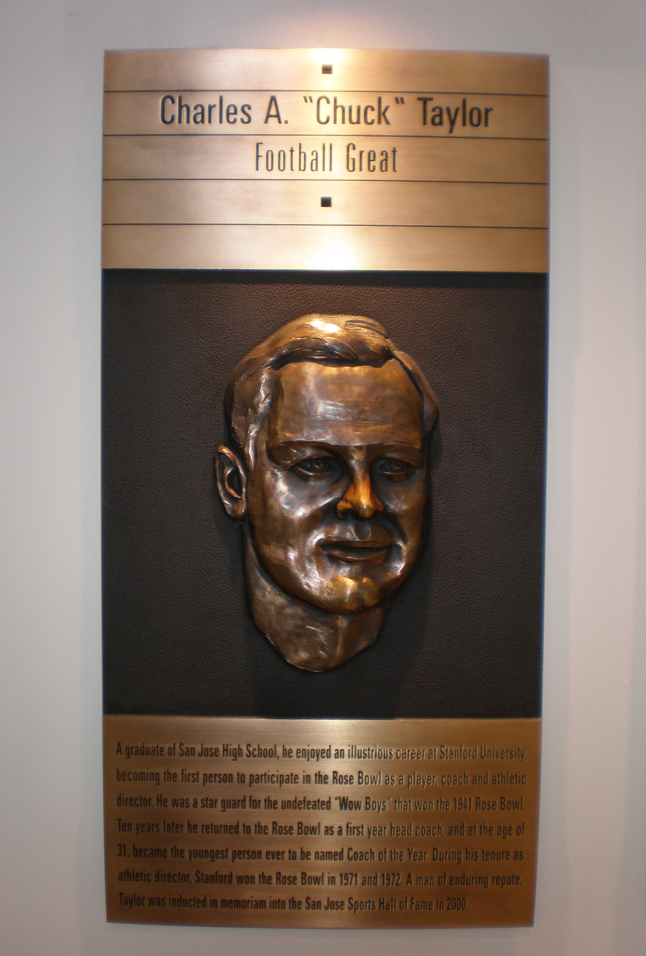 Chuck Taylor's plaque at the San Jose Sports Hall of Fame, displayed at HP Pavilion in San Jose, California.